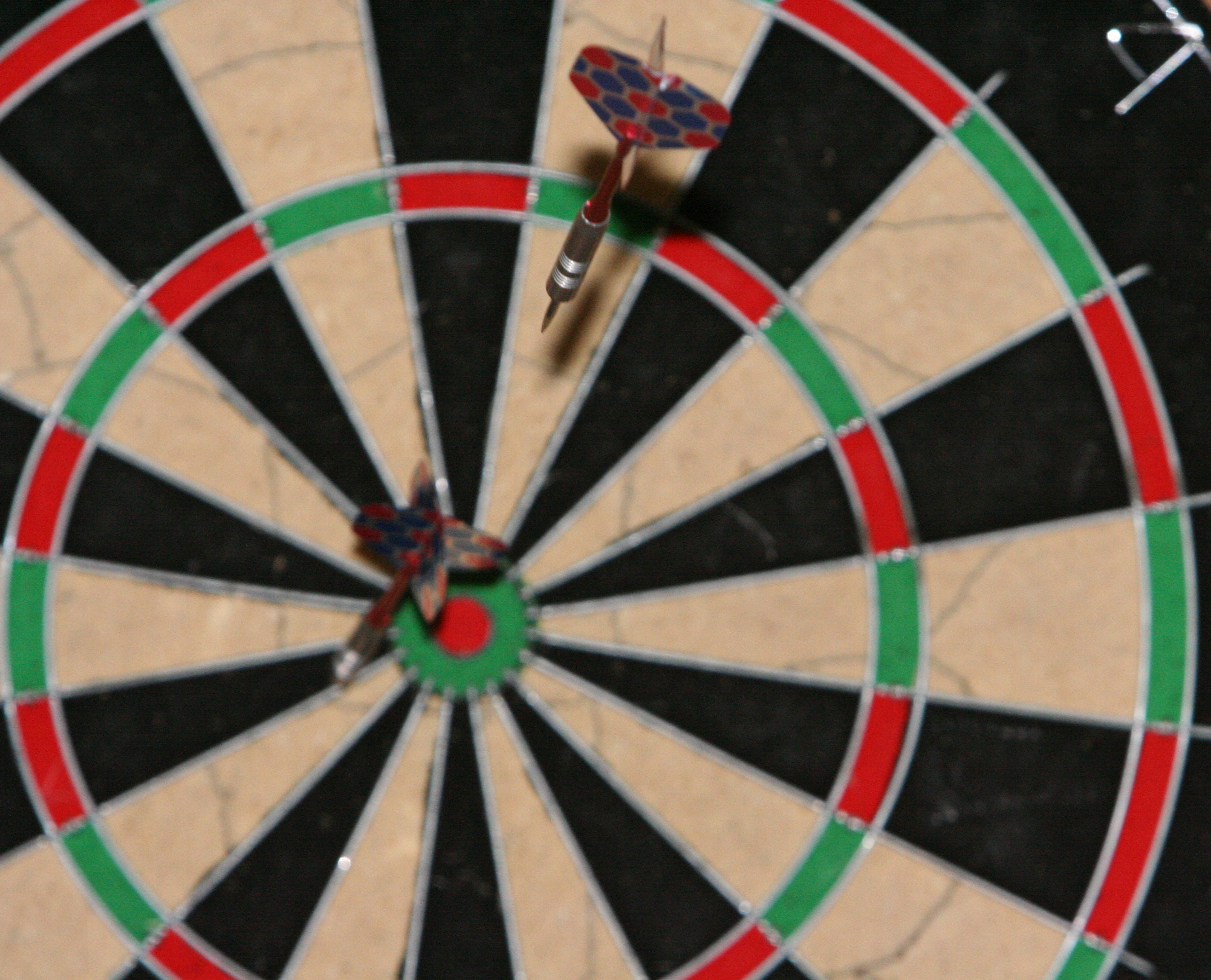 Just playing around with moving objects again. Shots from behind like this are much easier than from the side. It's not easy to trip the shutter at just the right time. Of course there are technical solutions to that problem, but I don't want to deal with them now.